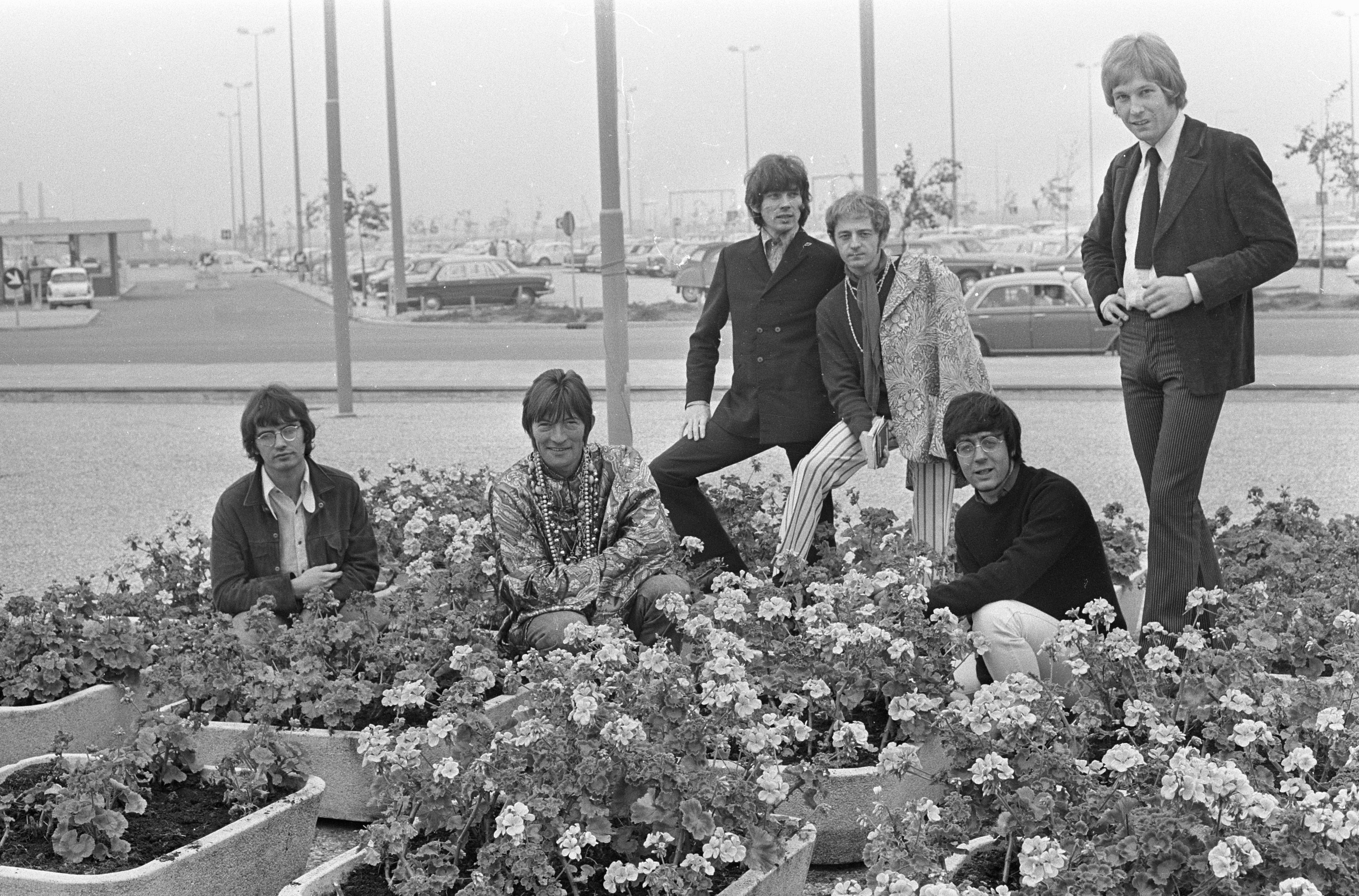 Manfred Mann and Dave Berry arriving at Schiphol Airport, the Netherlands, 11 Sept. 1967. Left to right: Tom McGuinness, Dave Berry, Klaus Voormann, Mike Hugg, Manfred Mann, Mike d'Abo.